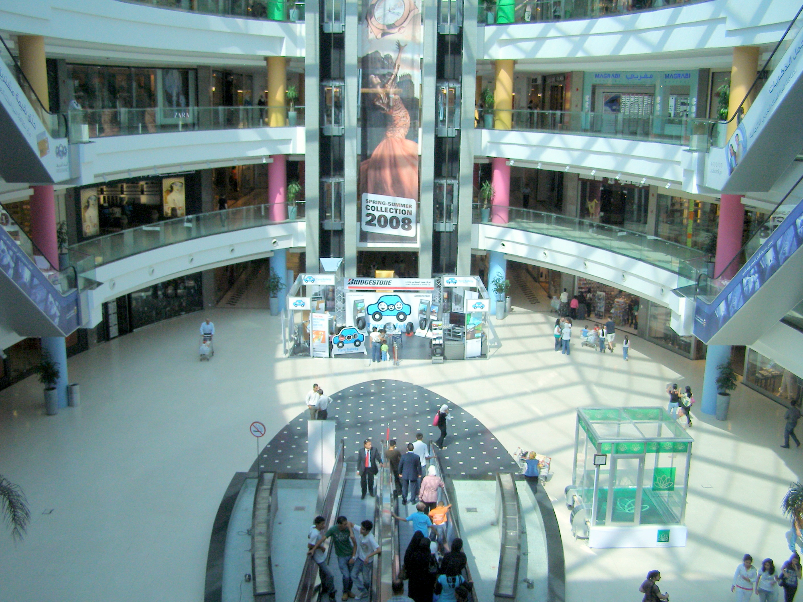 City Mall Amman